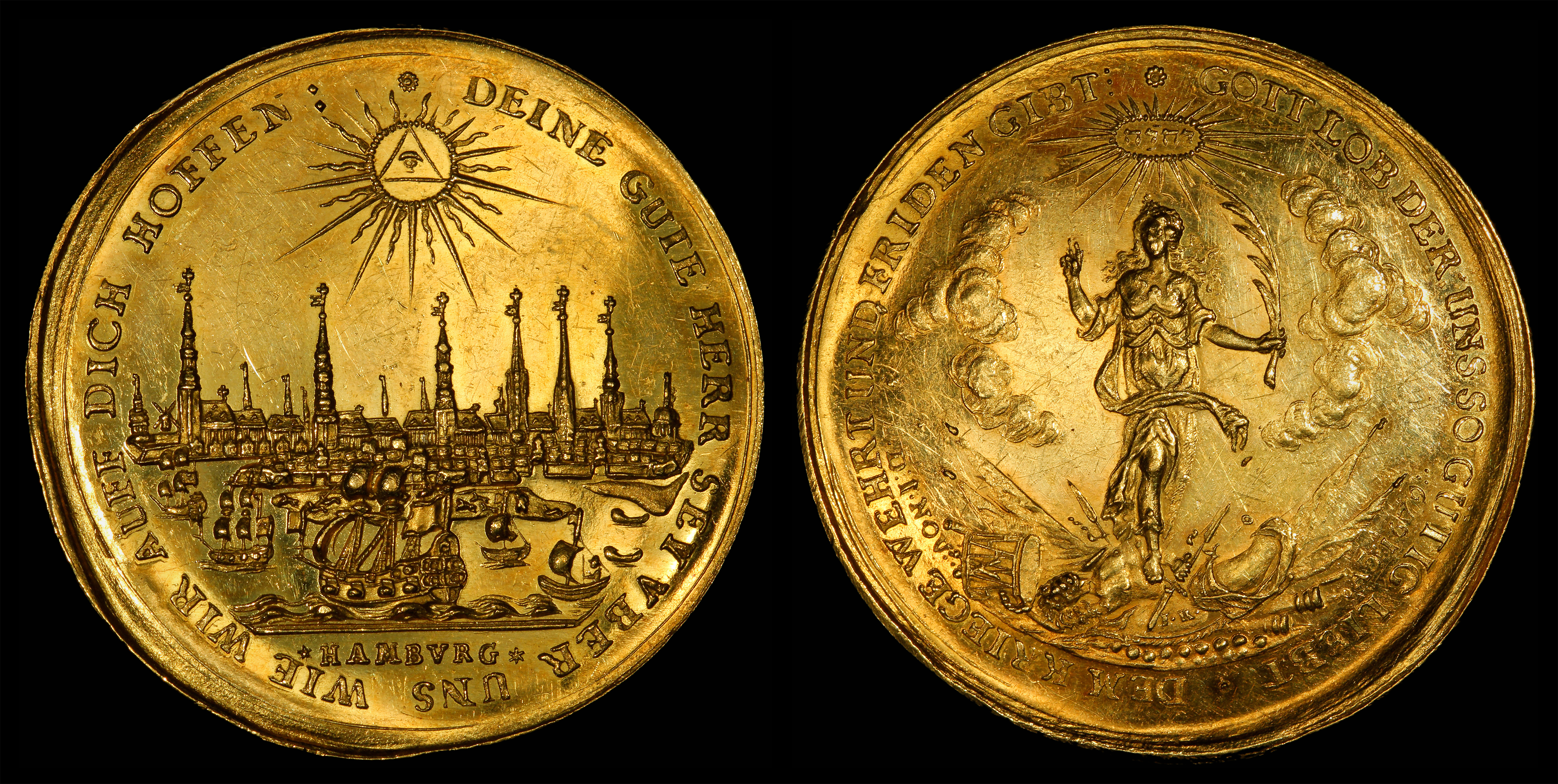 Free imperial city of Hamburg (Holy Roman Empire), half-portugalöser (1679).[1] Equivalent to five ducats. Engraved by Johann Christoph Retke.[2]Text reads as follows: (obverse) DEINE GÜTE HERR SEY VBER UNS WIE WIR AUFF DICH HOFFEN (Lord, may thy kindness be with us just as we have hoped for) and (reverse) GOTT LOB DER UNS SO GÜTIG LIEBT • DEM KRIEGE WEHRT UND FRIDEN GIBT (God loves our praise so graciously that he gives unto war first resistance then peace).verbatim